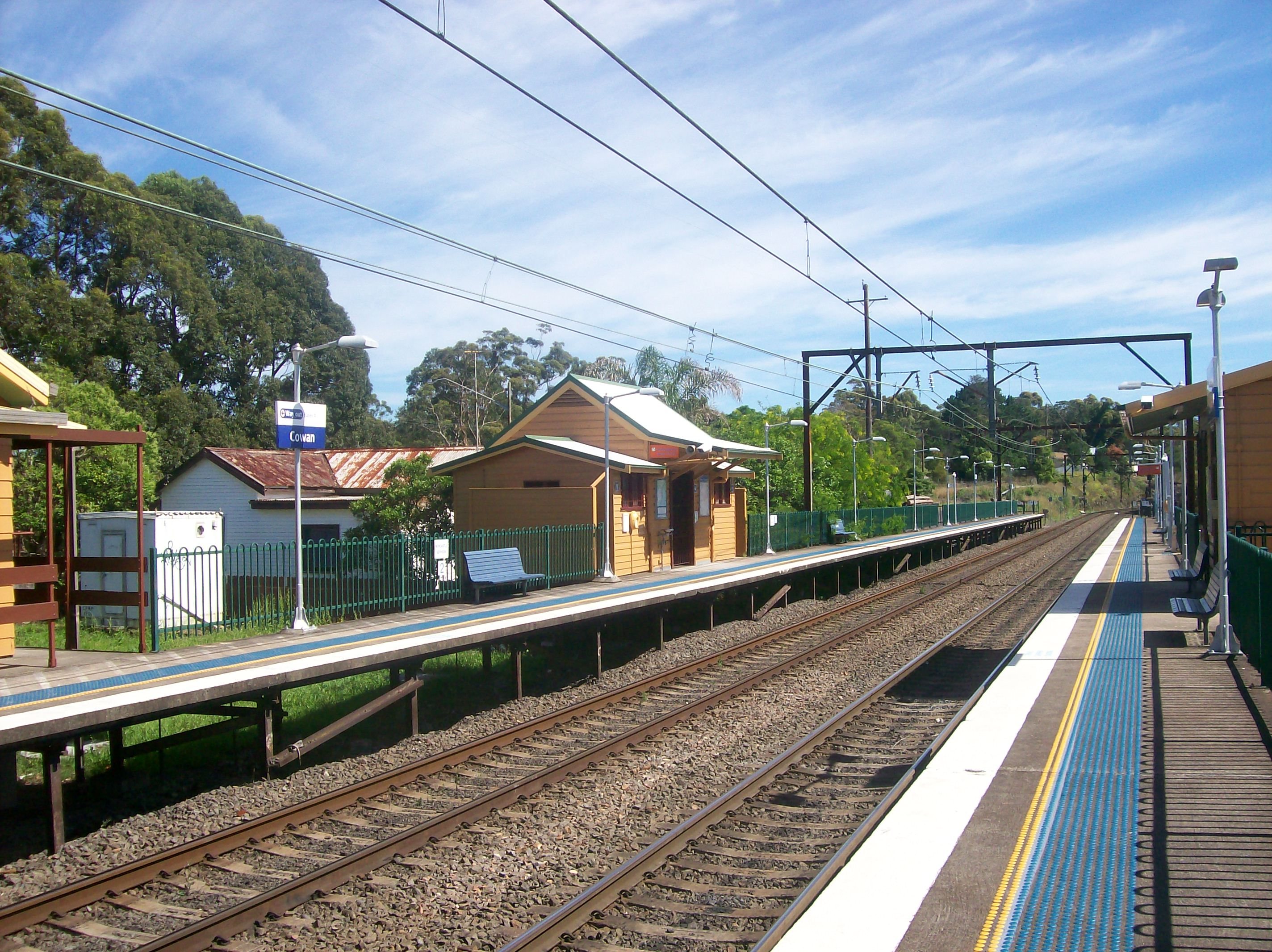 Cowan railway station